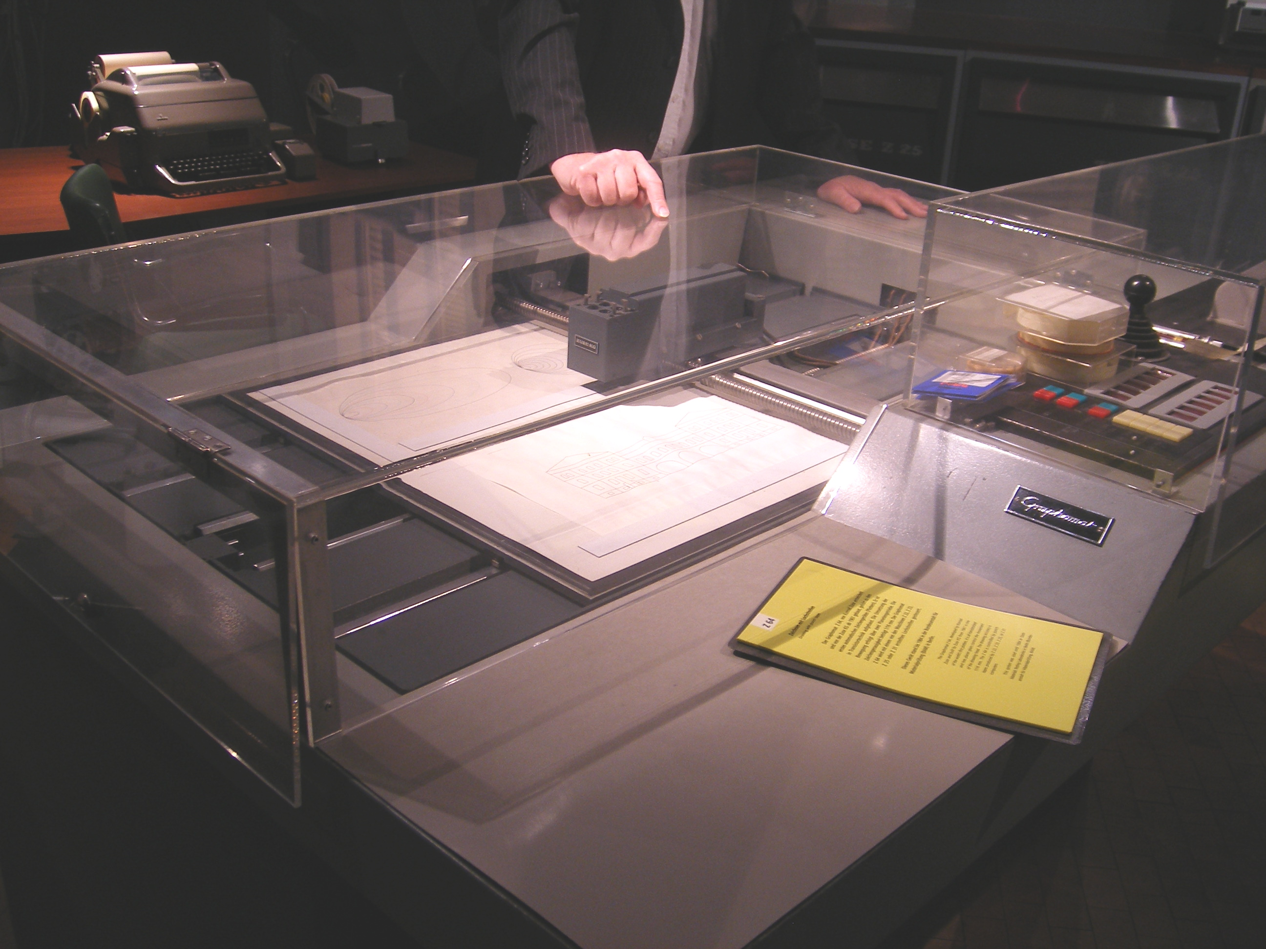 Zuse Z64 Graphomat, a plotter from the early 1960s. For more information.